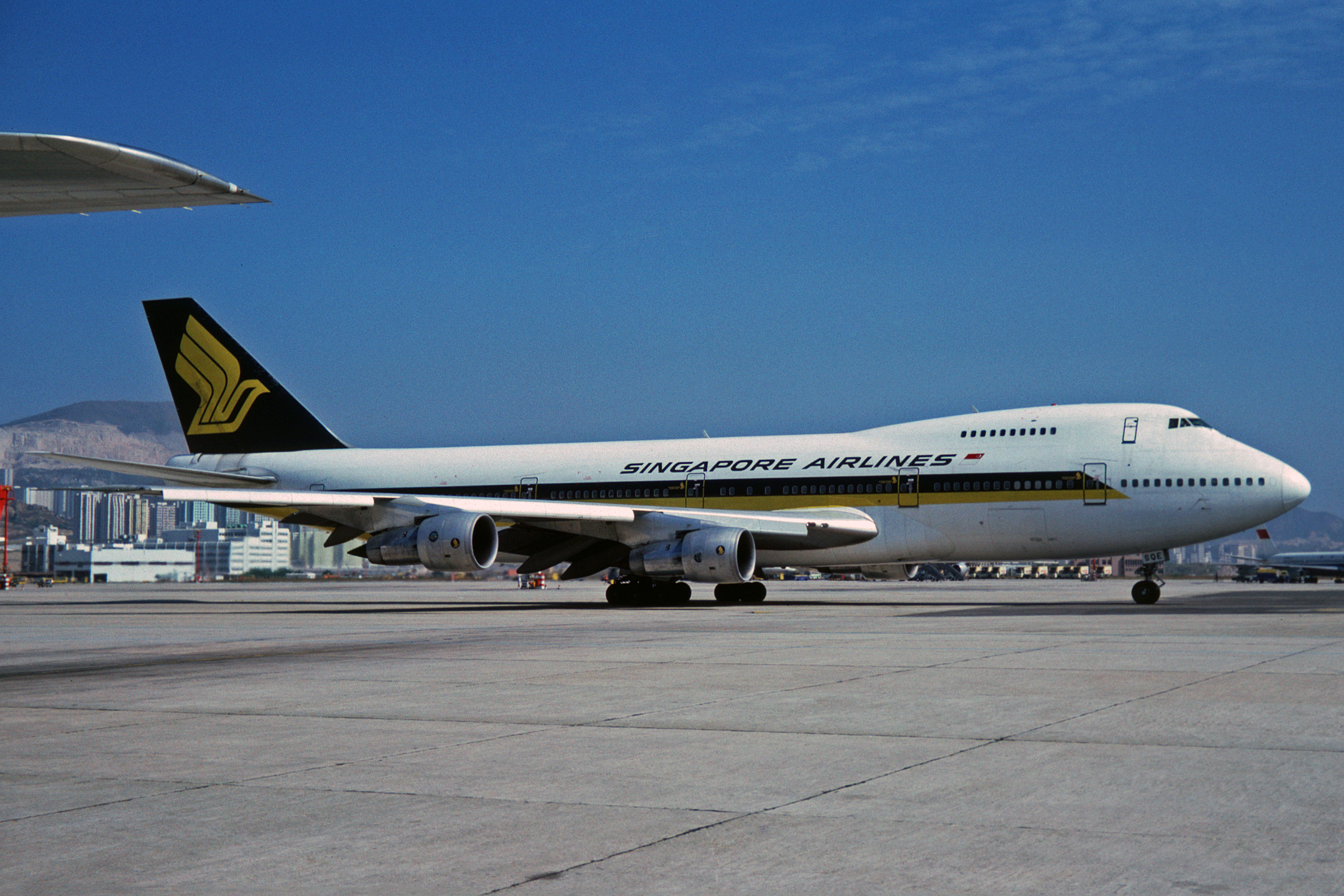 Taken at the old Kai Tak airport when I was working there with B.Cal on relief. This aircraft became Jumbo Hostel near Stockholm Arlanda Airport in late 2008.